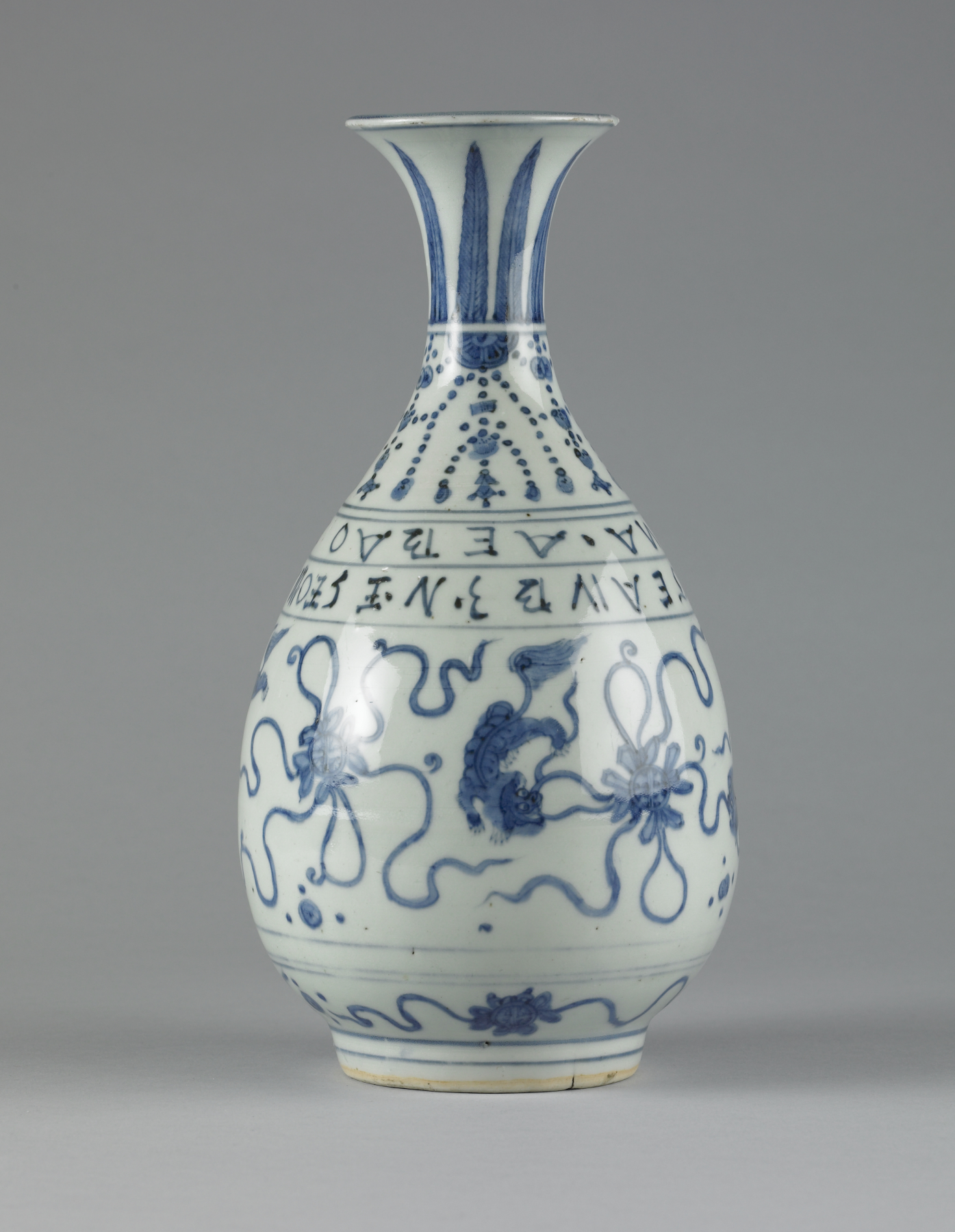 The inscription around the shoulder of this blue and white bottle, written upside-down in imitation of a Portuguese model states that the vase was made in 1552 for Jorge Anriques, a Portuguese trading ship captain.